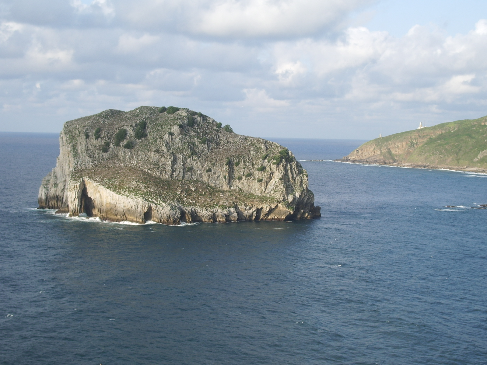 Aketx island from Gaztelugatxeko Doniene church, Biscay, Basque Country. On the background, the Cape of Matxitxako.